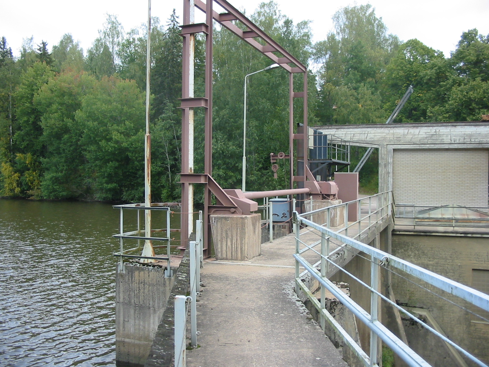 Juntolankoski hydroelectric power plant in River Paimionjoki, Paimio, Finland Proper, Finland